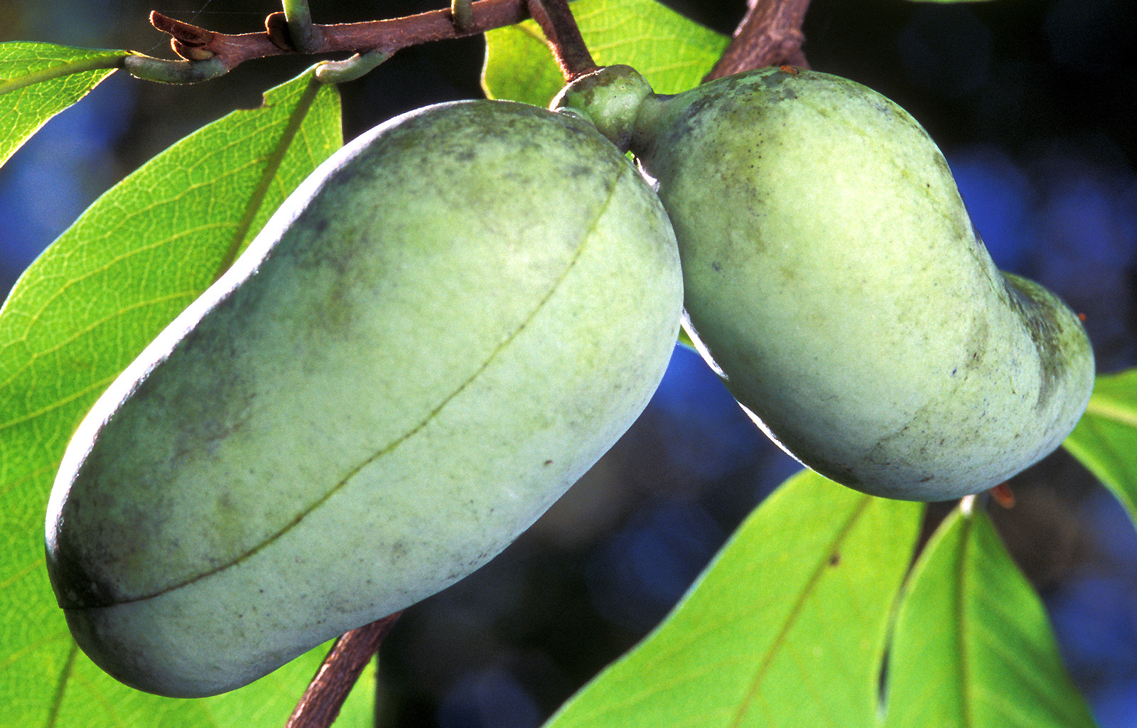 The pawpaw tree, Asimina triloba, yields 3- to 5-inch-long fruit, the largest fruit native to the United States. Note: this is not the papaya. It is a fruit native to the eastern USA, related to the soursop, sweetsop, and cherimoya.